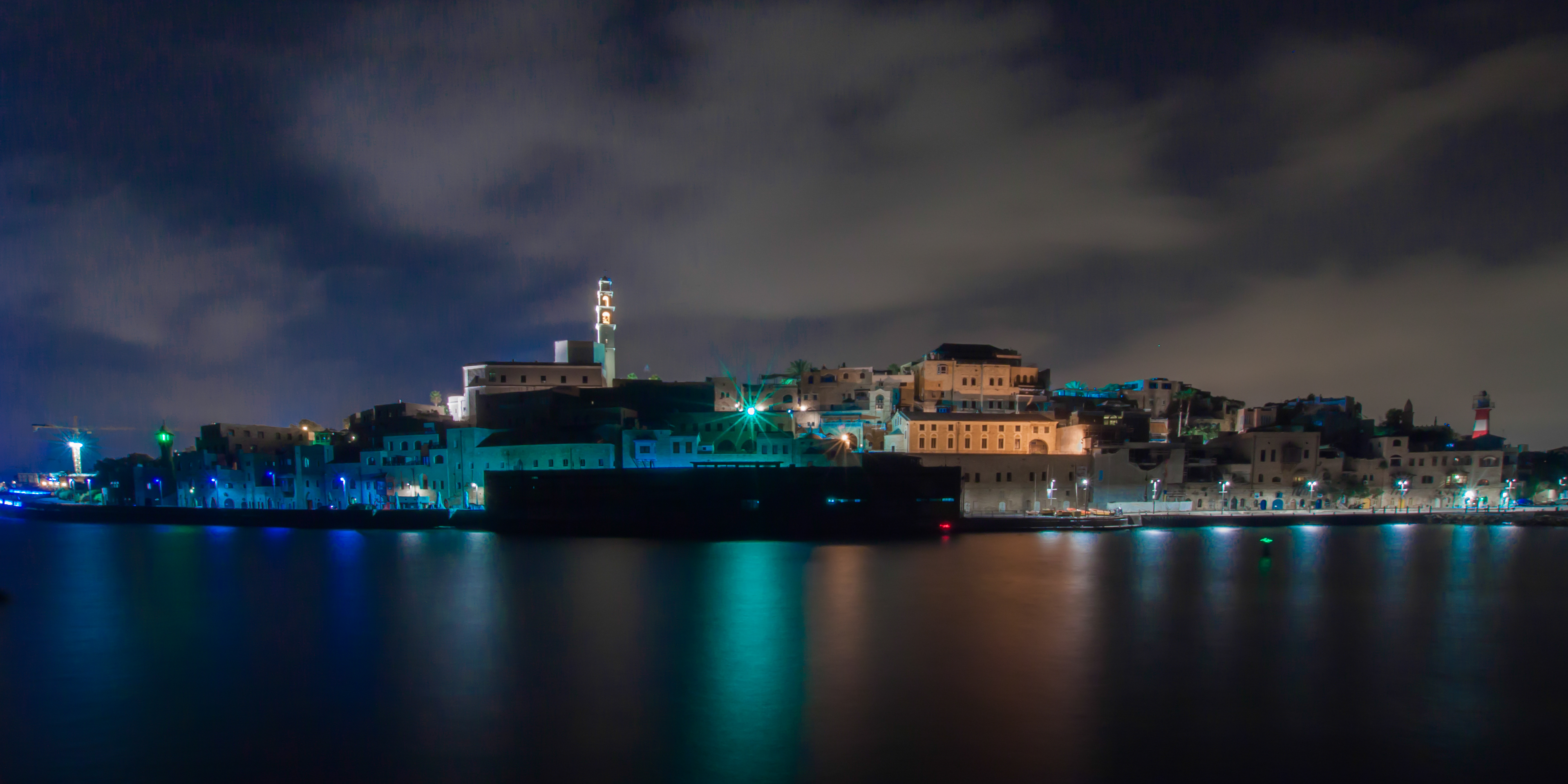 Old City of Jaffa, Israel from the sea